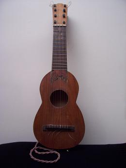 Jarana primera.